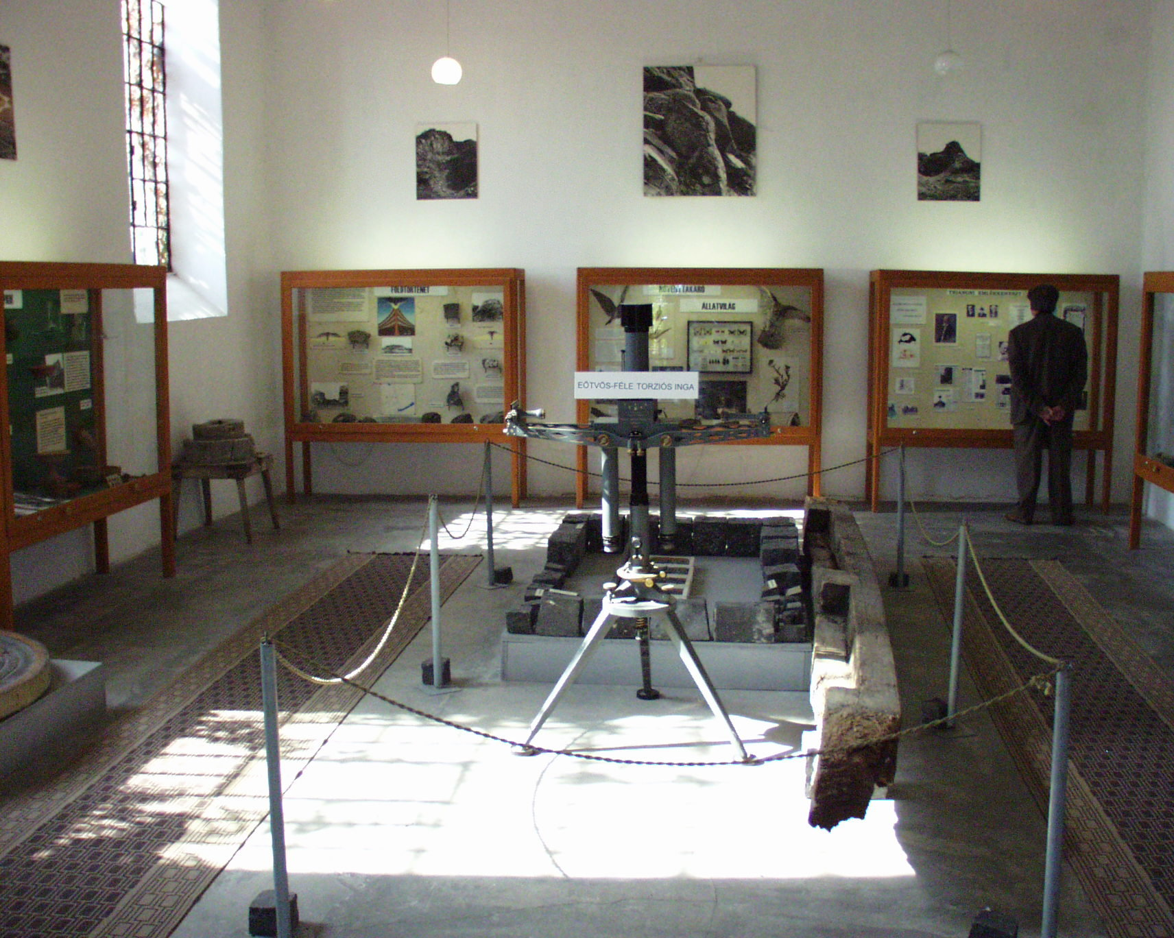 In Sághegyi Múzeum. In foreground torsion pendulum (Eötvös pendulum).